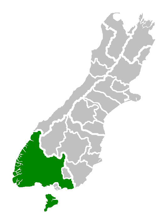 Location of Southland District.